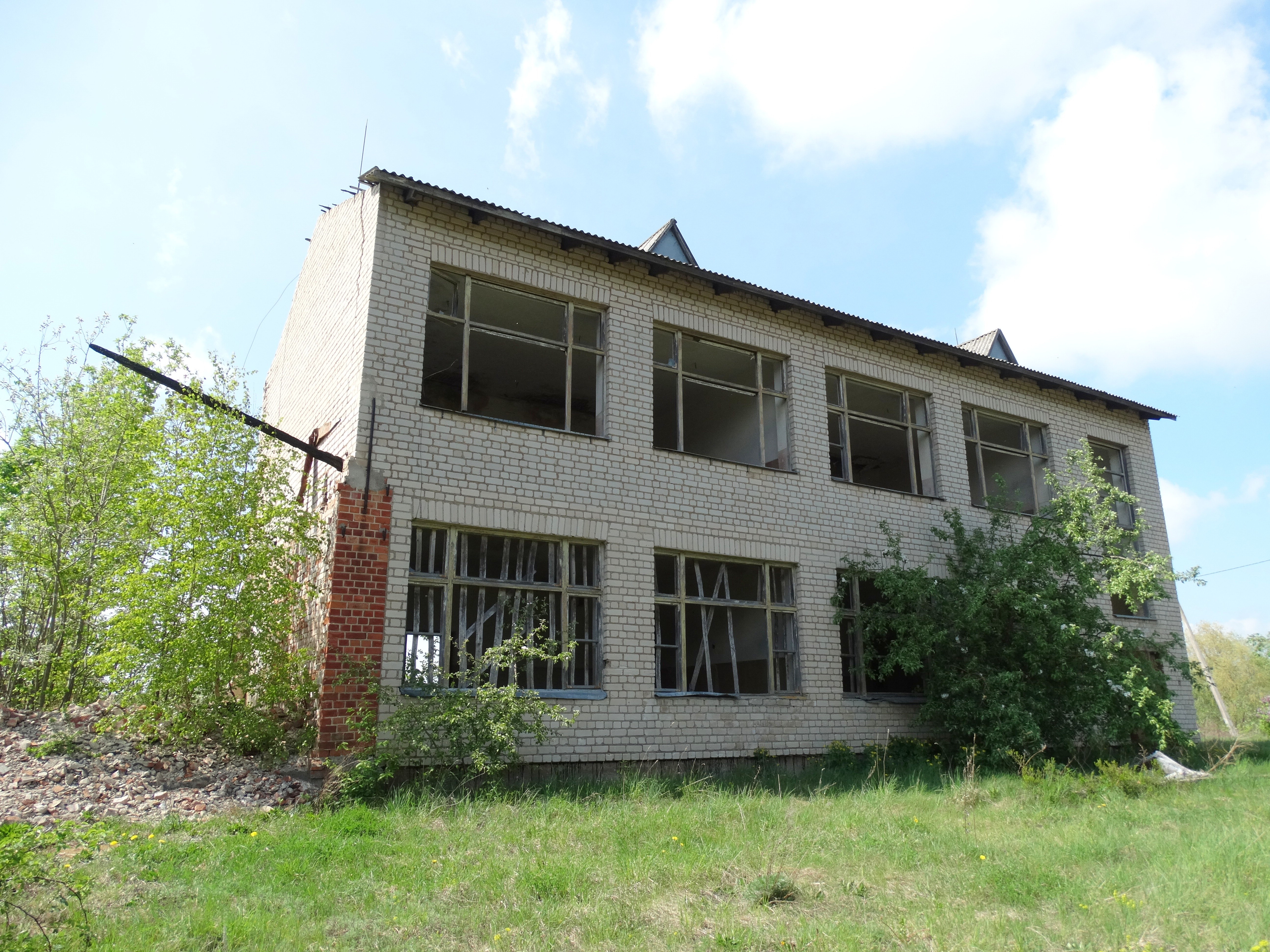 Former school, Diržiai, Pakruojis district, Lithuania